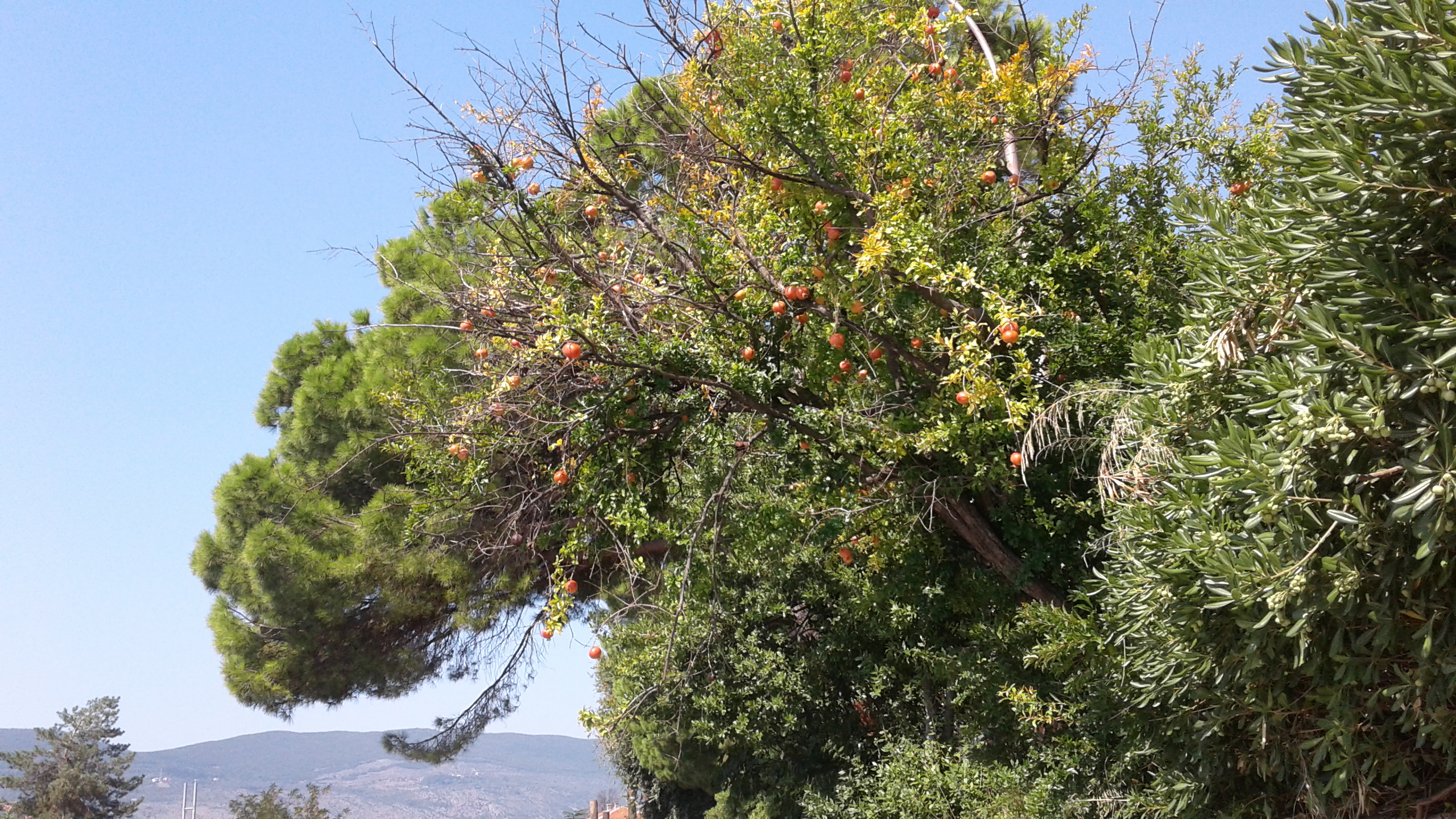 A pomegranate tree near the central road in Herceg Novi.